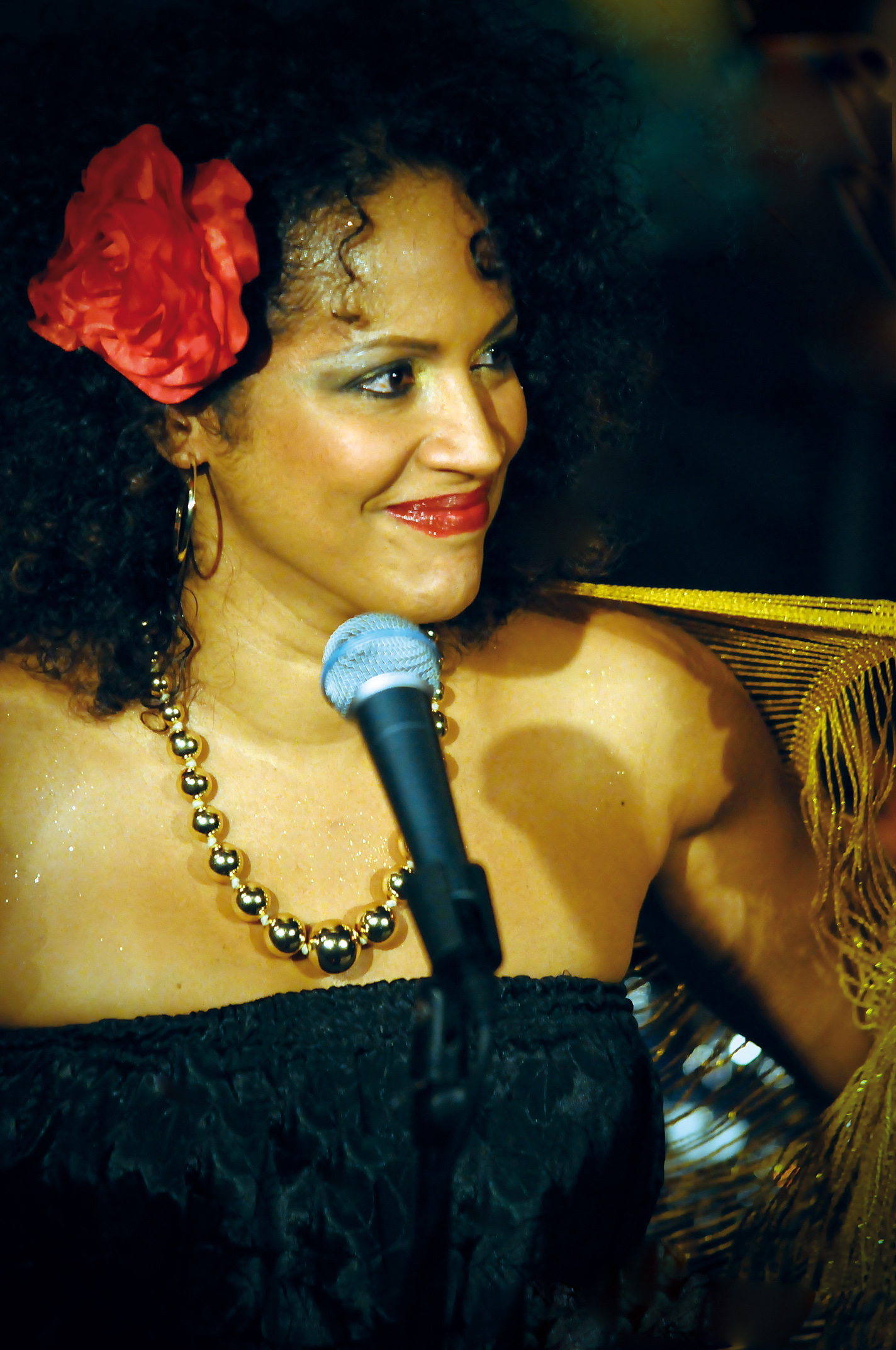 Simone Moreno